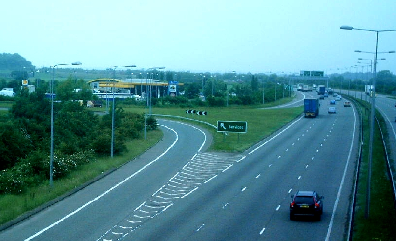 A50 Services West, South Derbyshire